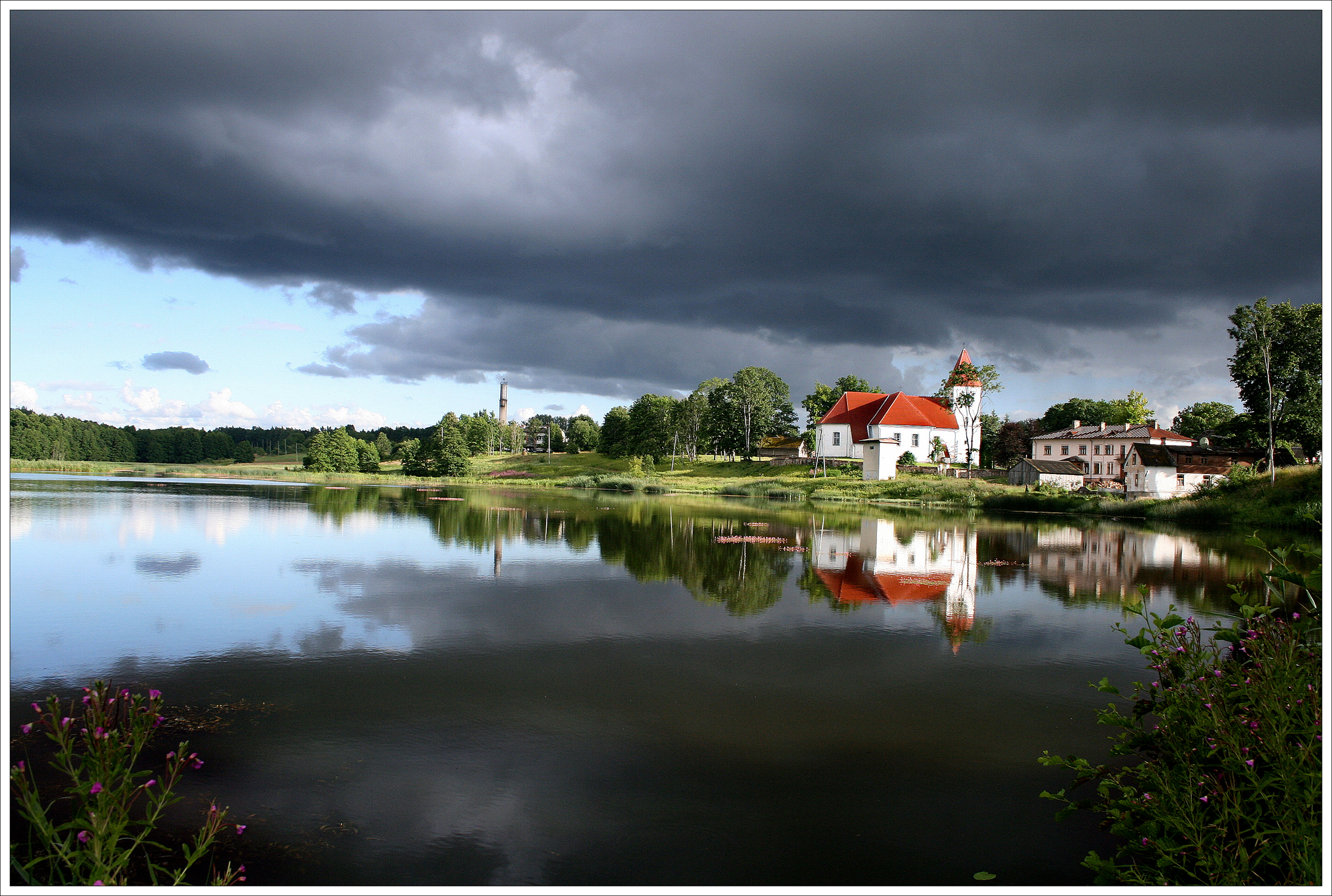 Alsunga lake and churchLatviešu: Alsungas ezers un baznīca